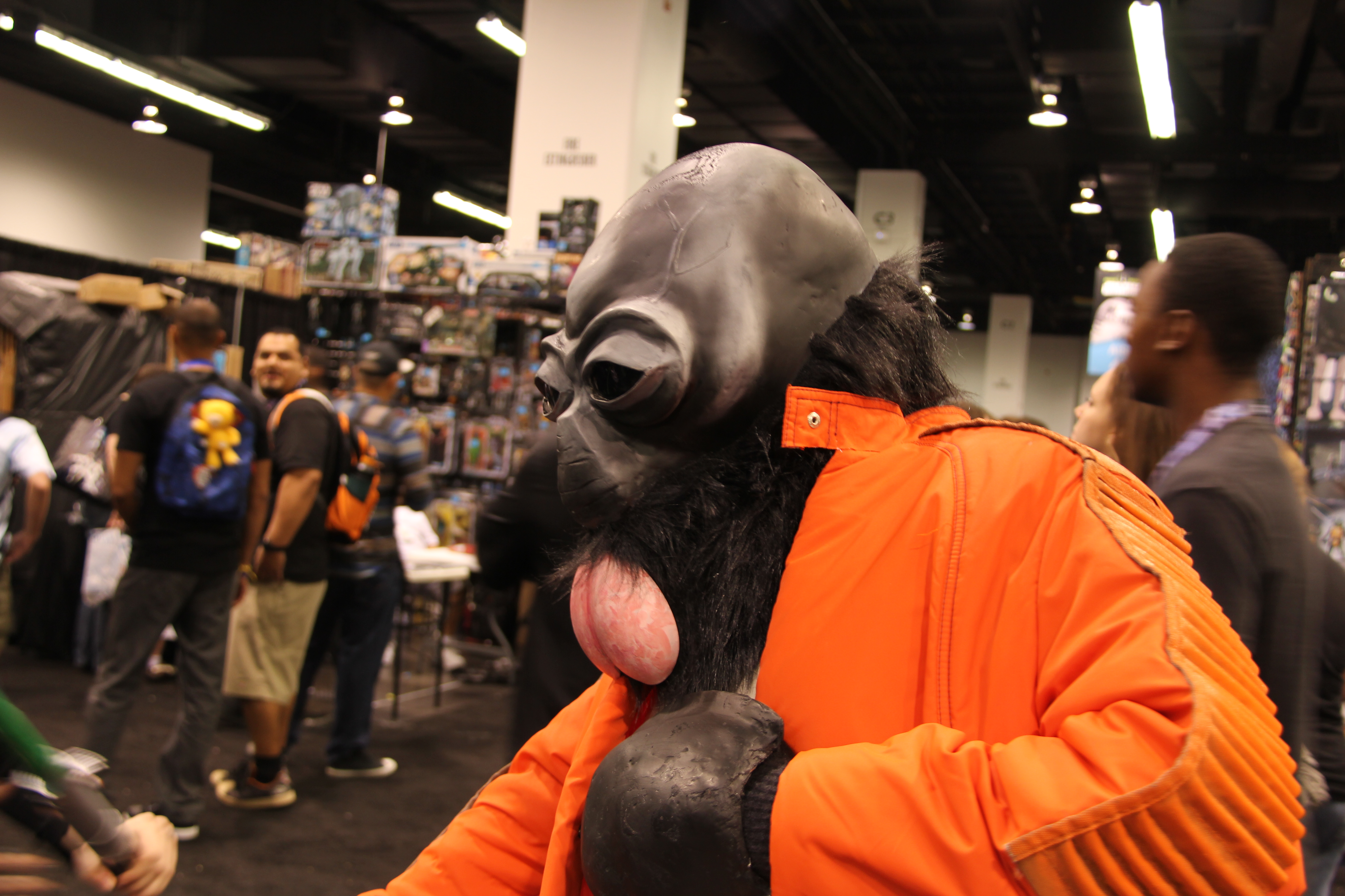 Still has his arm Star Wars Celebration in Anaheim, April 2015.